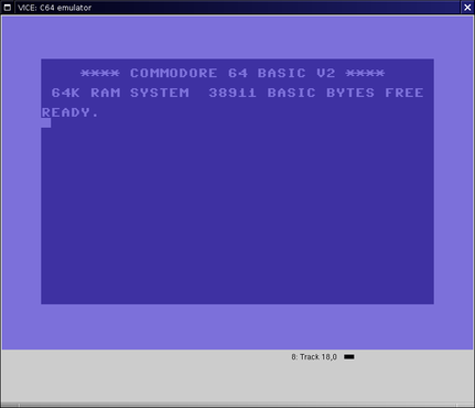 Screenshot of VICE, emulating Commodore 64. Running on Linux. The software (VICE) and X11 window manager used in screenshot (Window Maker) is GNU GPL. X11 widget set, Athena, is under X11 License. The Commodore 64 firmware itself has an unclear copyright ownership status, but is nevertheless copyrighted.